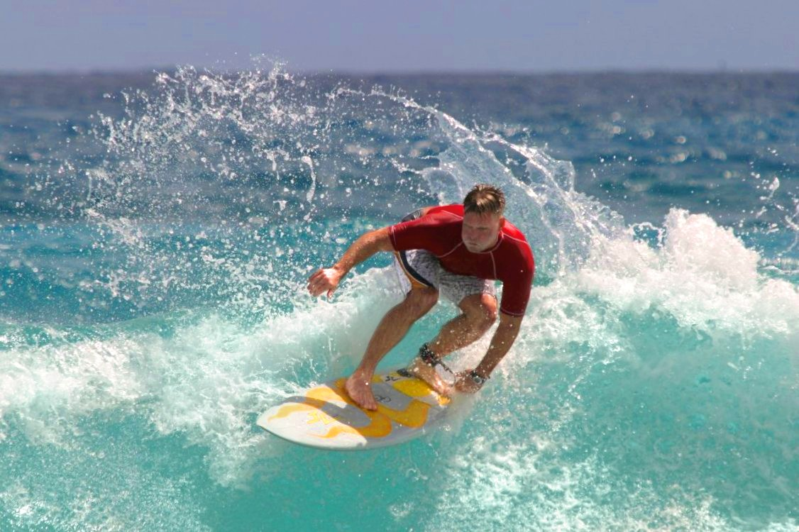 Surfing in Hawaii. Retouched version of Surfing in Hawaii.jpg (improved contrast and saturation).